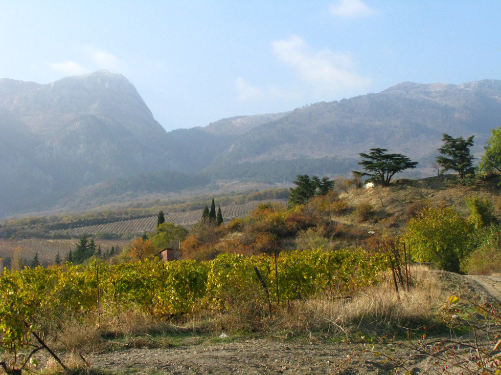 Вид с лестницы в Гурзуф / Landscape from the stairway to Hurzuf